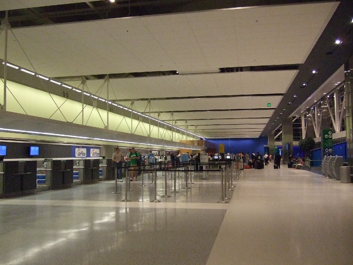 DTW North Terminal